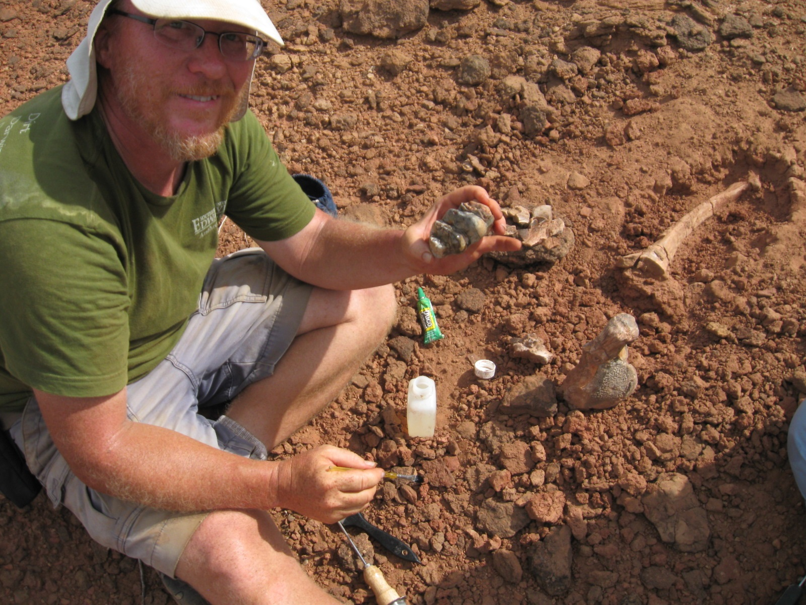 Tab in Turkana Basin, Kenya in 2008 with a fossil tooth of Losodokodon losodokius, a Proboscidean (elephant)